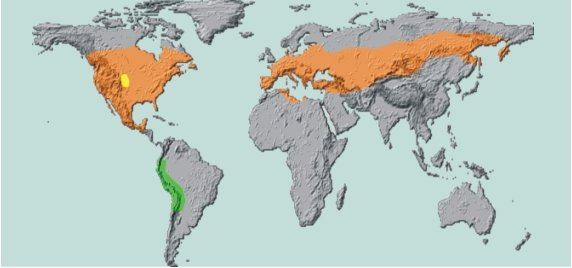 Kartoffelkäfer, Colorado potato beetle, Verbreitung, distribution